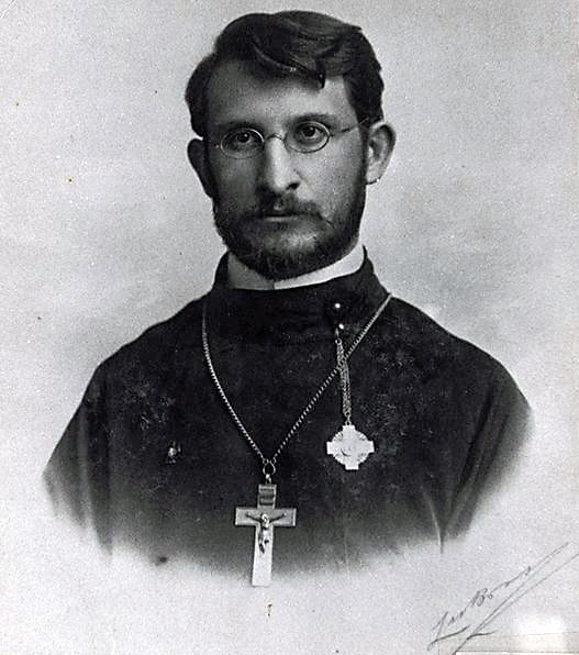 Leonid Turkiewicz, rector of the Northern-American Teological Academy